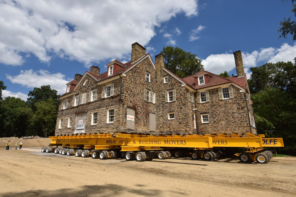 Wolfe House & Building Movers uses the Buckingham Power Dolly System to move the William Walker House in Edgeworth, Pennsylvania (August 2016).